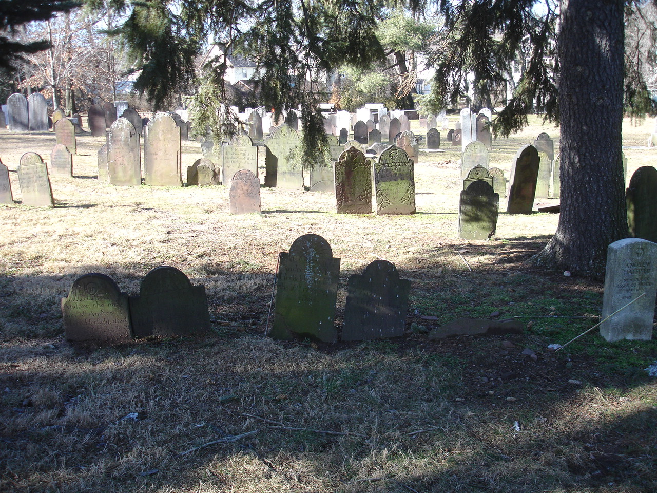 I took this photo of the Westfield Presbyterian Church Burial Ground myself on January 28, 2012.